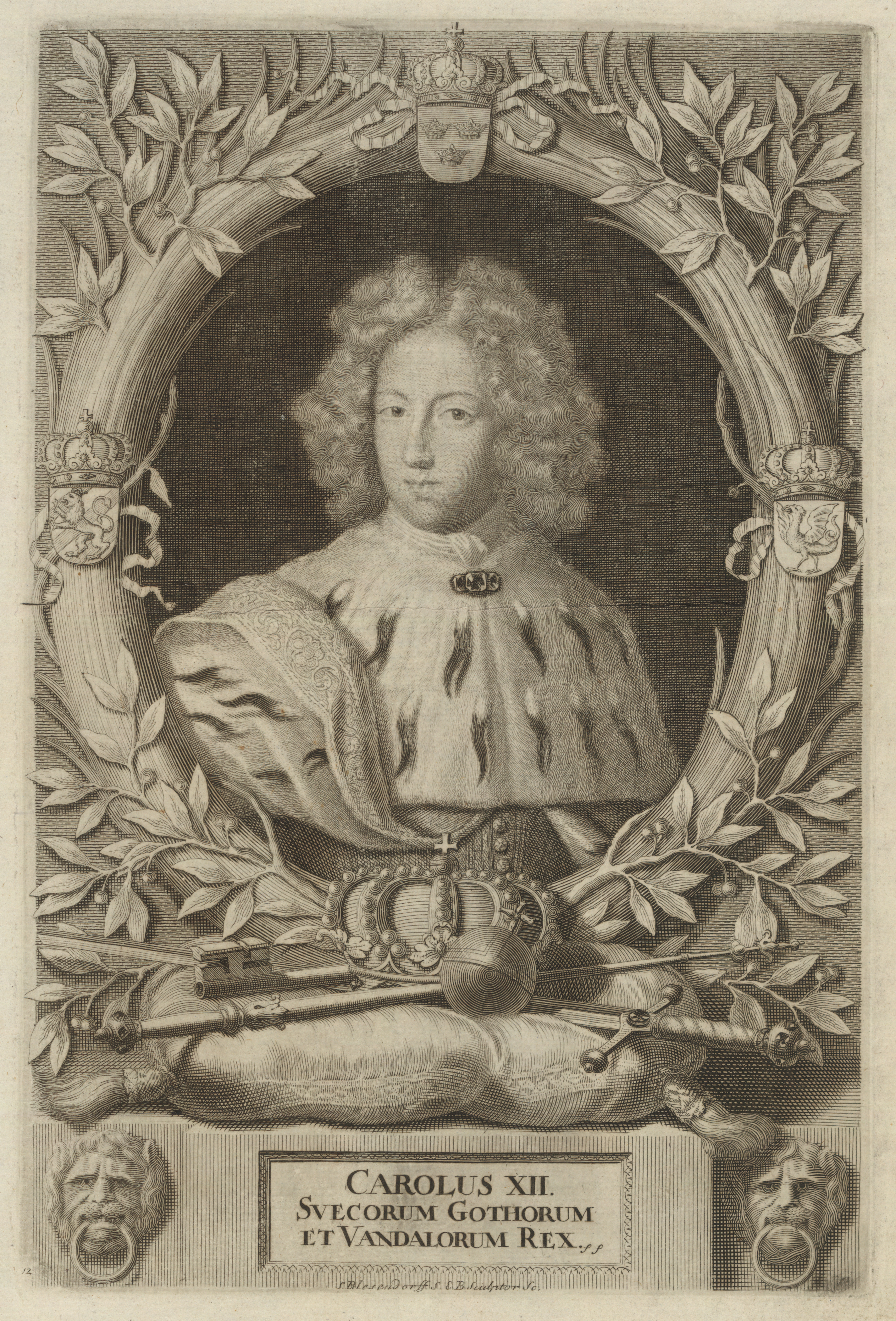 Carolus XII. Svecorum Gothorum et Vandalorum Rex. : [Bild] / S. Blesendorff S. E. B. sculptor sc.